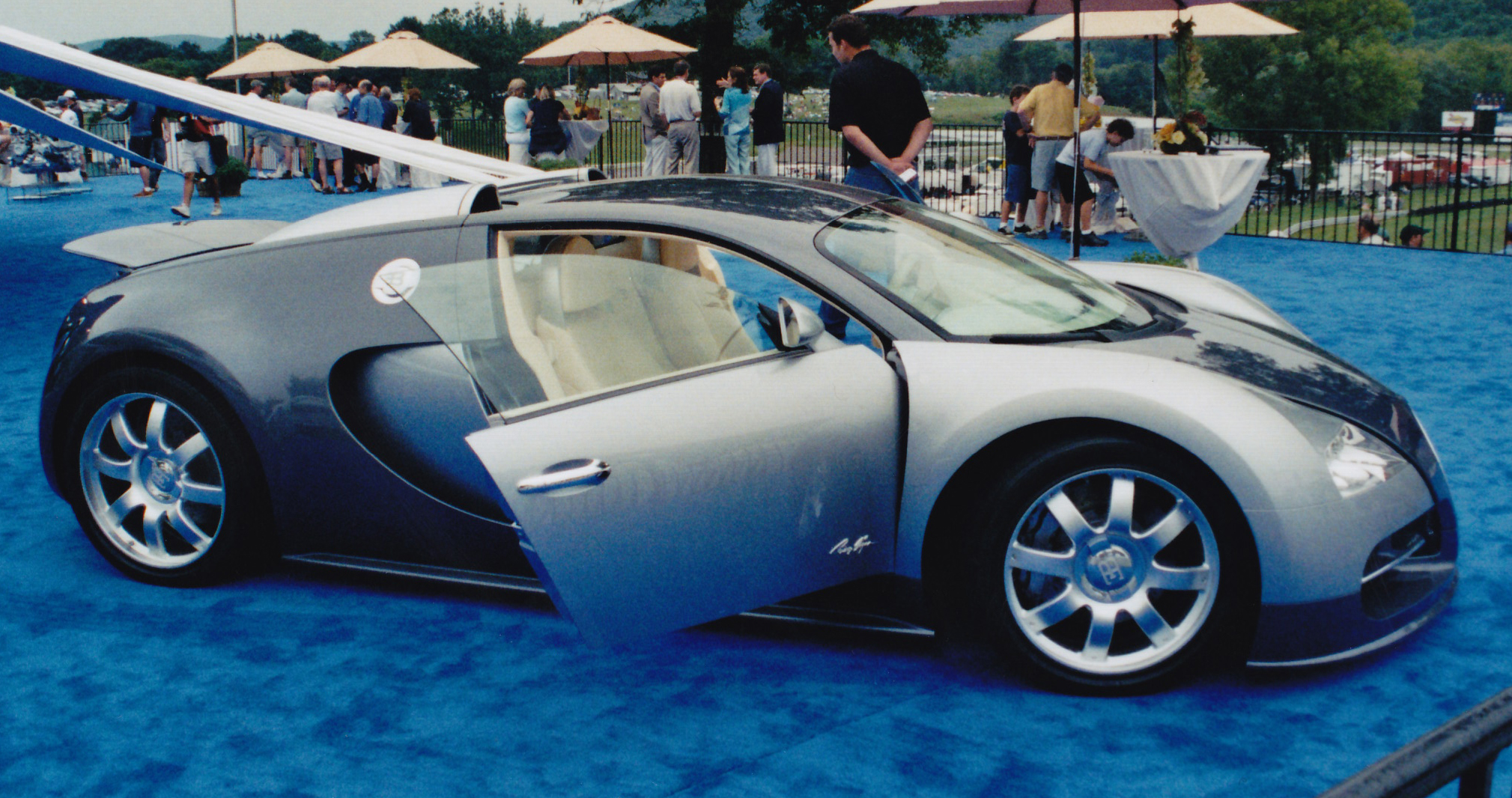 Bugatti Veyron Concept on display at the 2003 Lime Rock vintage race.